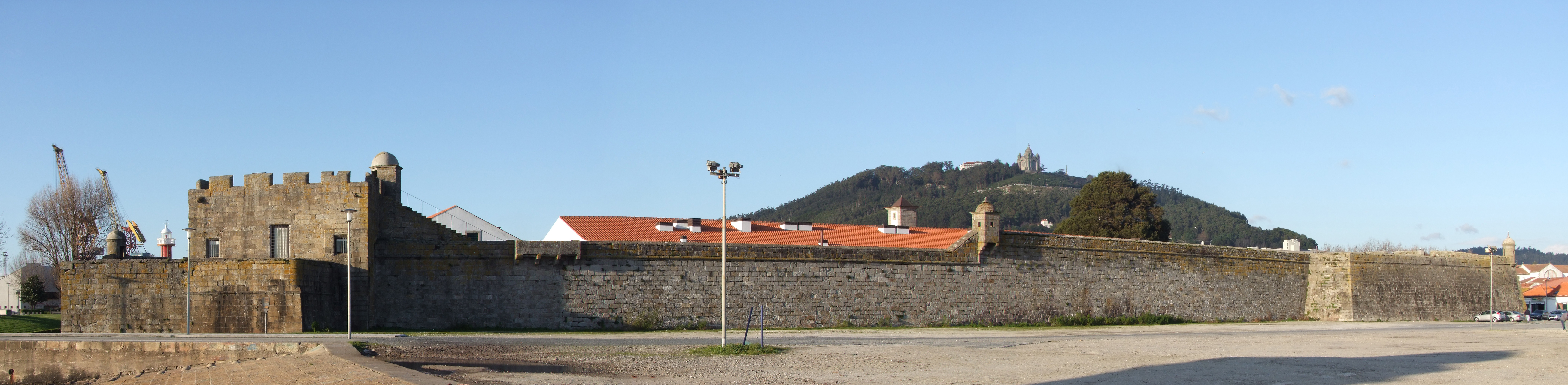 Santiago da Barra Fort, at Viana do Castelo, Portugal